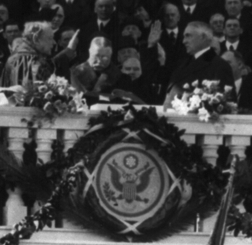 Warren Harding being sworn in as president by Chief Justice Edward D. White